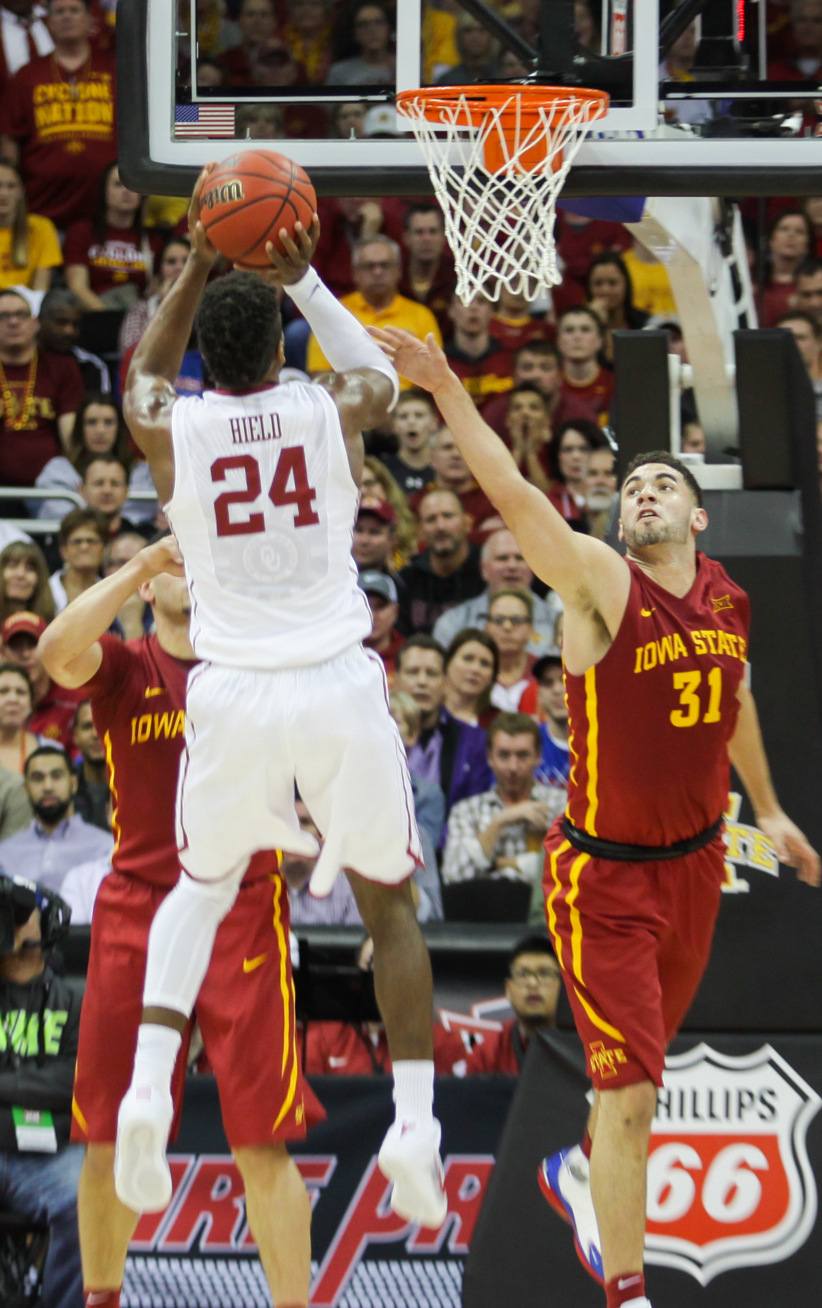 After being down at halftime, the Cyclones fought back, but fell short in their first game of the Big 12 Championship, losing to the Oklahoma Sooners 79-76.